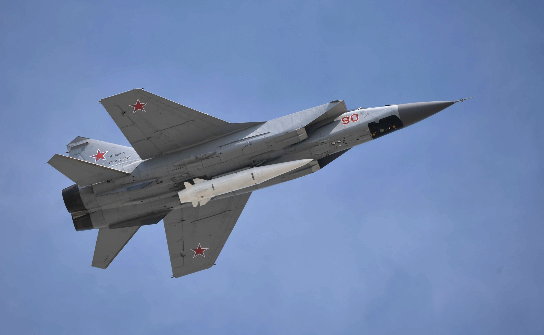 Kh-47M2 Kinzhal. 2018 Moscow Victory Day Parade